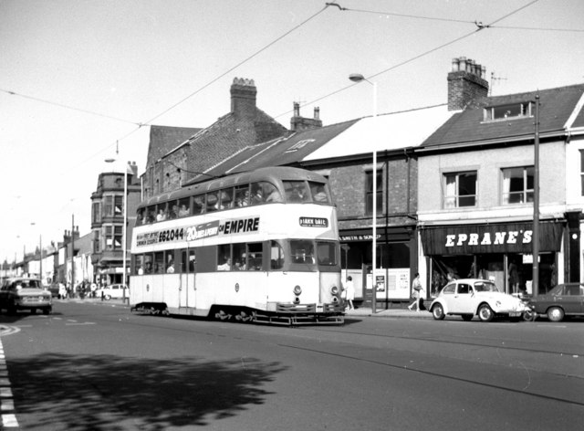 'Balloon' car at Albert Square